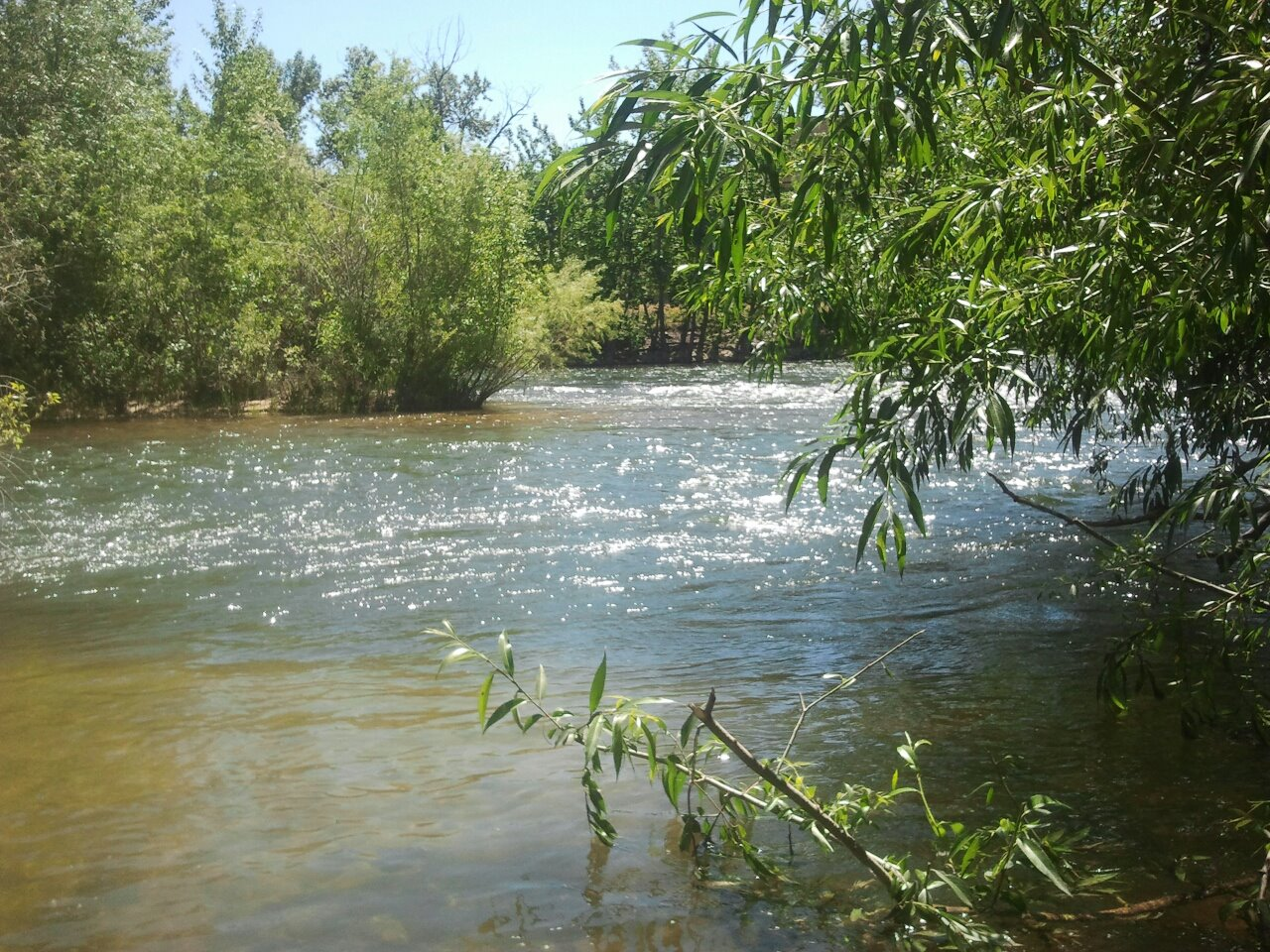 Boise River in Julia Davis Park in Boise Idaho during the summer 2012